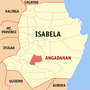 Map of Isabela showing the location of Angadanan